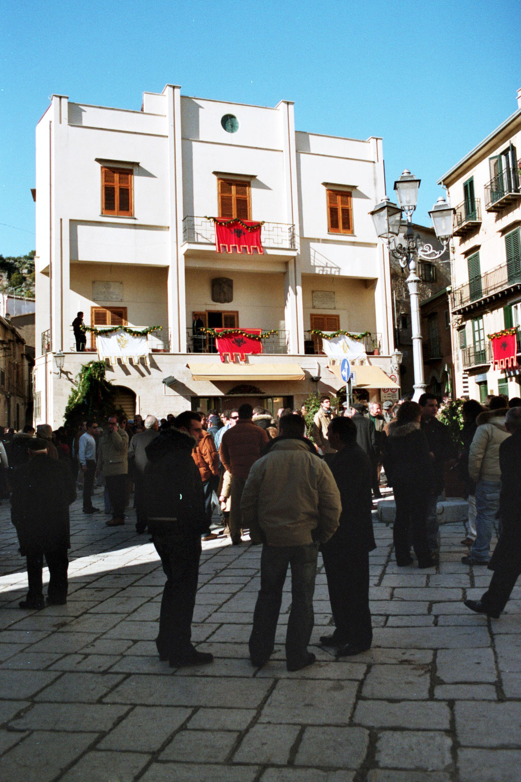 Piana degli Albanesi; Place with town hall. (